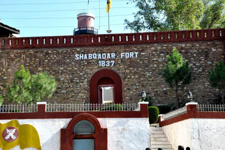 Shabqadar Fort